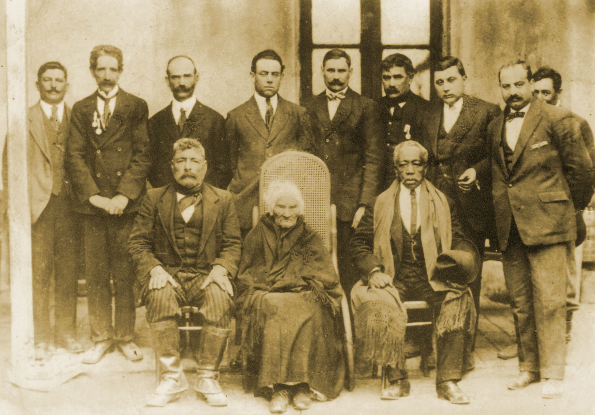 Argentine "payador" Gabino Ezeiza (seated, at right) posing with Juana Paredes de Quinteros (on his side), her son Salvador Quinteros and other neighbors of the city of Justiniano Posse in Córdoba Province, Argentina. Ezeize would die that same year, on October 12.